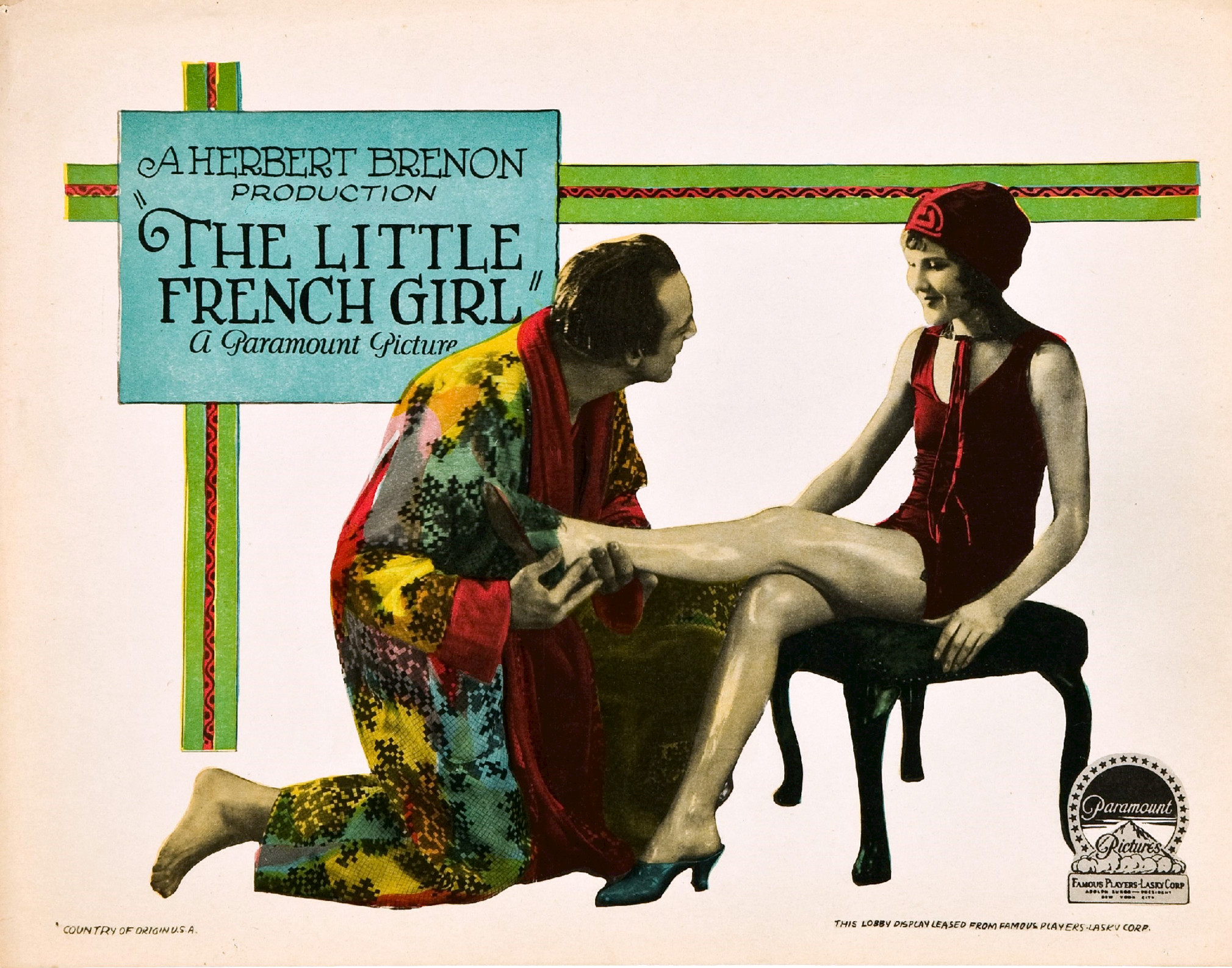 Lobby card for the American drama film The Little French Girl (1925). There are no copyright marks on the card. At bottom left is Country of origin USA. At bottom right is This lobby display leased from Famous Players Lasky Corp.